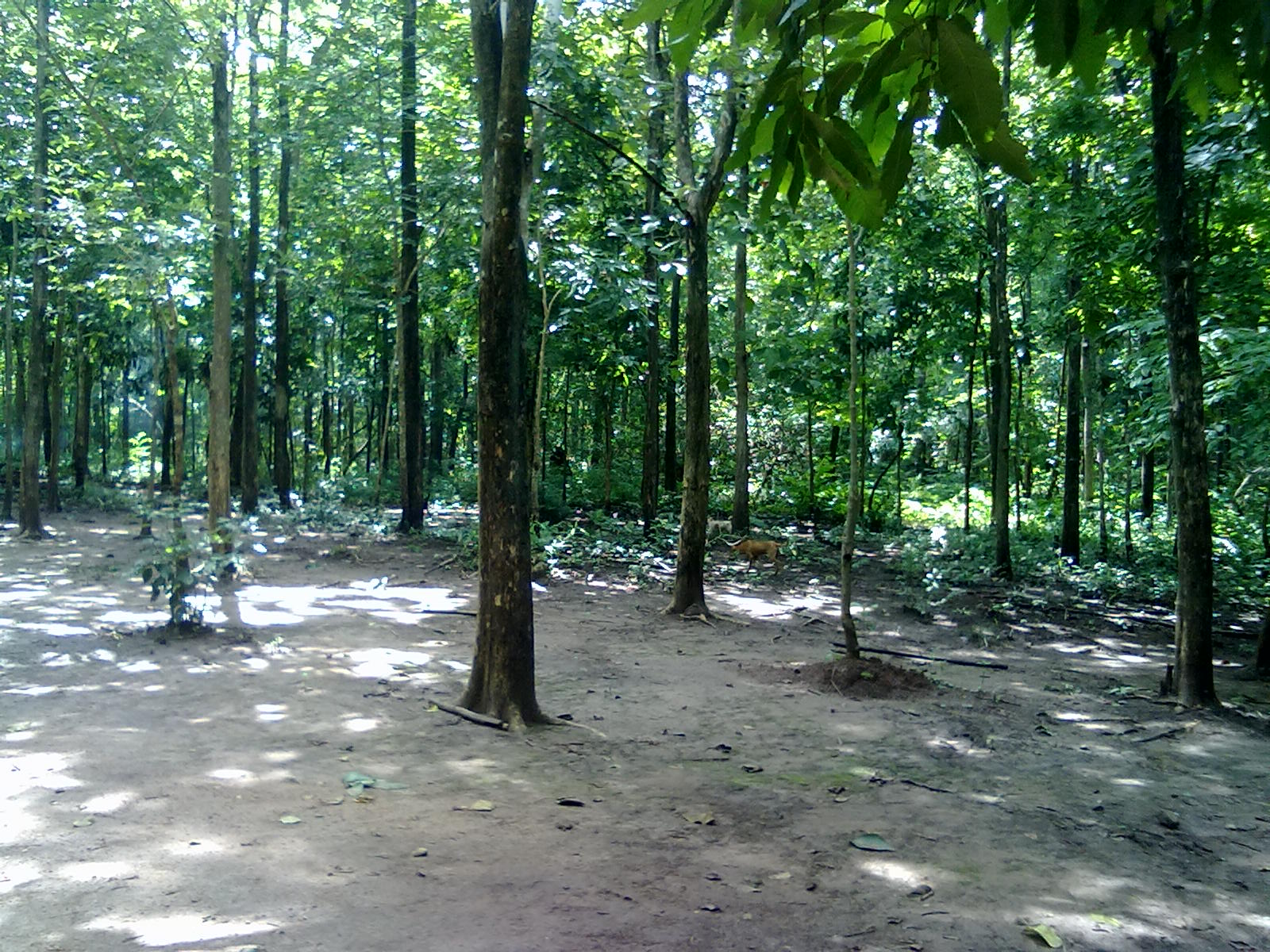 Maredumilli forests, good and pleasent place near Rajamundry